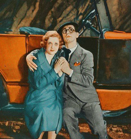 Scene from the 1930 film Whoopie! with Eddie Cantor.